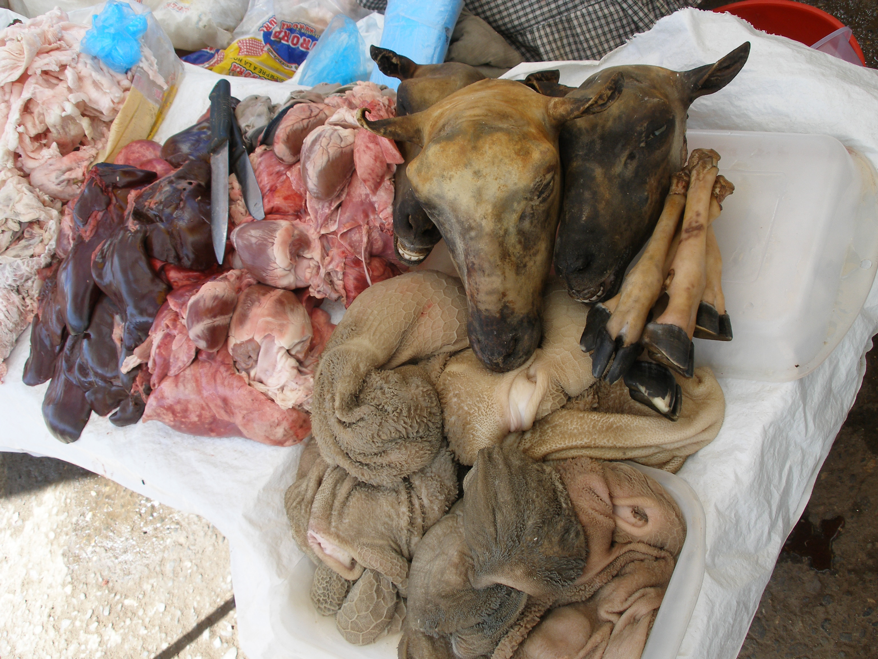 Goat tripe and heads at an open air market in Peru